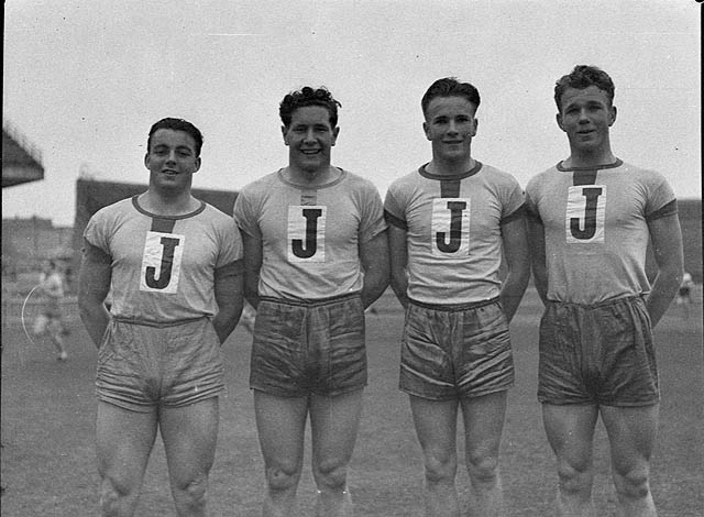 Student athletes of St. Joseph's College, Hunters Hill, 1939.